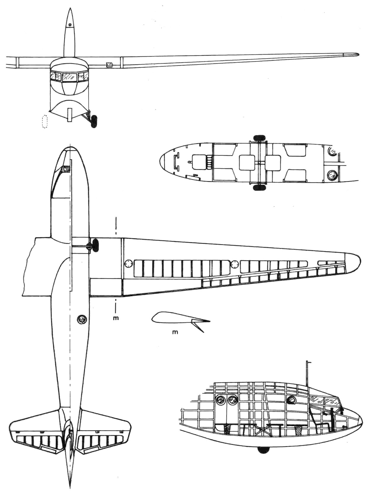 3-side blueprints of an Antonov A-7.